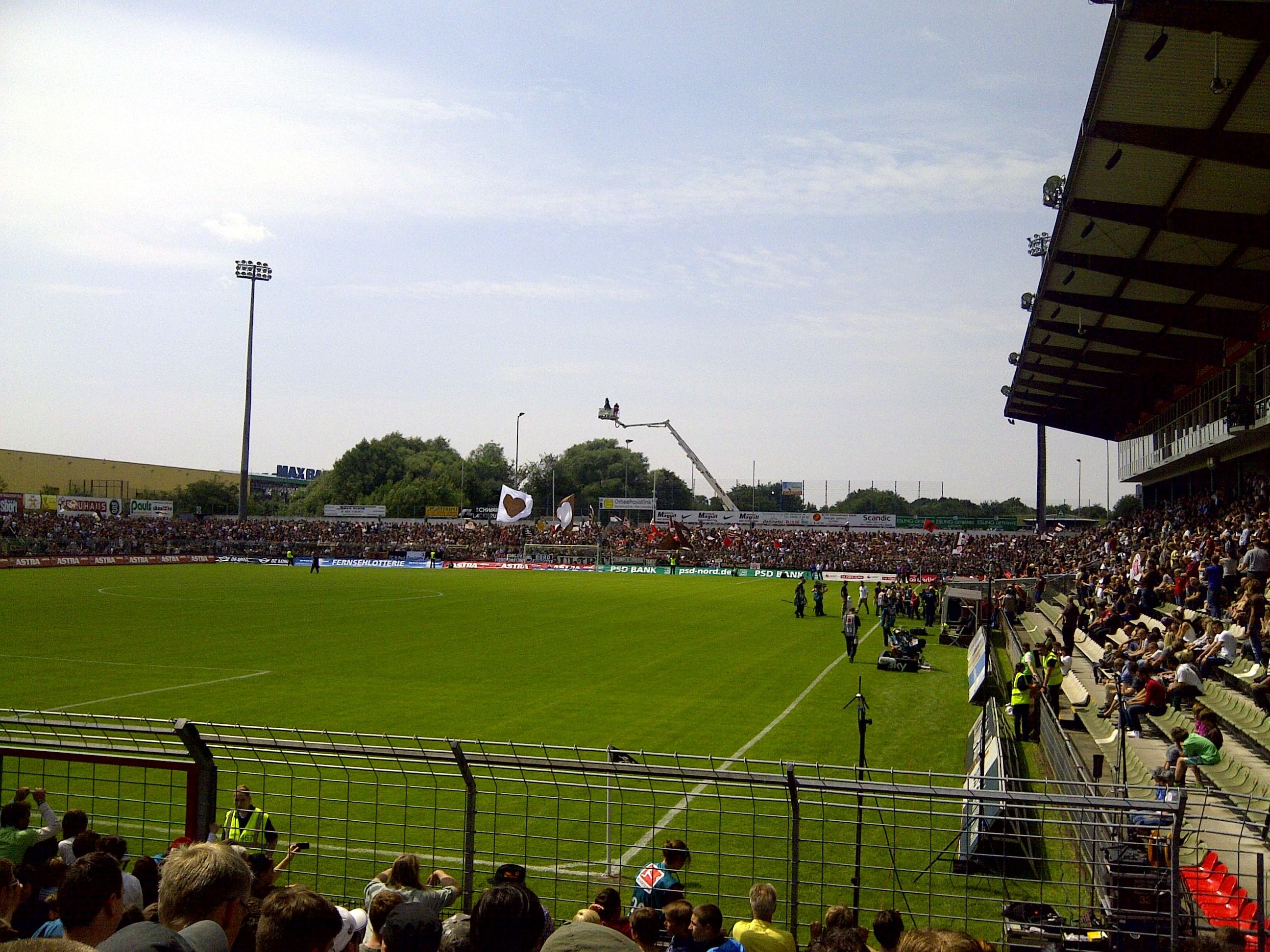 View to the main stand (right) and to the stands A and B at Lohmühle Stadion in Lübeck, Germany